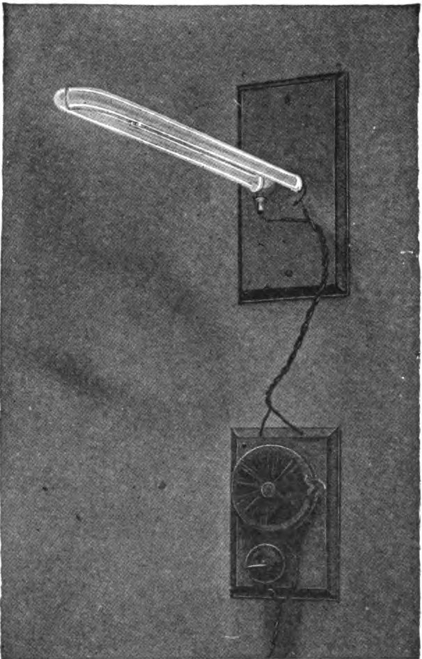 One of the first mercury vapor lamps created by Peter Cooper Hewitt, which he invented and patented in 1903. This was the forerunner of the fluorescent lamp. It consisted of a sealed partially evacuated glass tube with electrodes at either end, with a small amount of liquid mercury inside. When a pulse of high voltage was applied an arc was started between the electrodes which evaporated the mercury. The electrons struck the mercury atoms, knocking off electrons, ionizing them, so the gas in the tube became electrically conductive, and a current flowed through the tube. When the electrons rejoined the atoms the atoms emitted light. The circular device below the lamp is the ballast, an inductor which produced a pulse of high voltage when the lamp was turned on, to start it. The mercury-vapor lamp was a lot more efficient than the incandescent lamp which was the dominant type of electric light at the time, but it produced a greenish light which was unpleasant, so its use was limited to office buildings and hallways and photographic uses. Later a fluorescent coating (a phosphor) was applied to the inside of the tube, which produced a pleasing white light when struck by ultraviolet light from the mercury vapor. This was the fluorescent lamp which has become most widely used light source today.